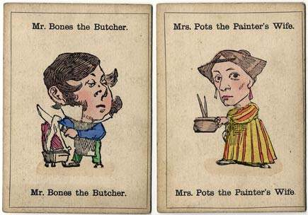 Cards from an 1880s edition of Happy Families published by John Jaques & Son, 102 Hatton Garden, London. No artist credited, but the work has been attributed to John Tenniel.